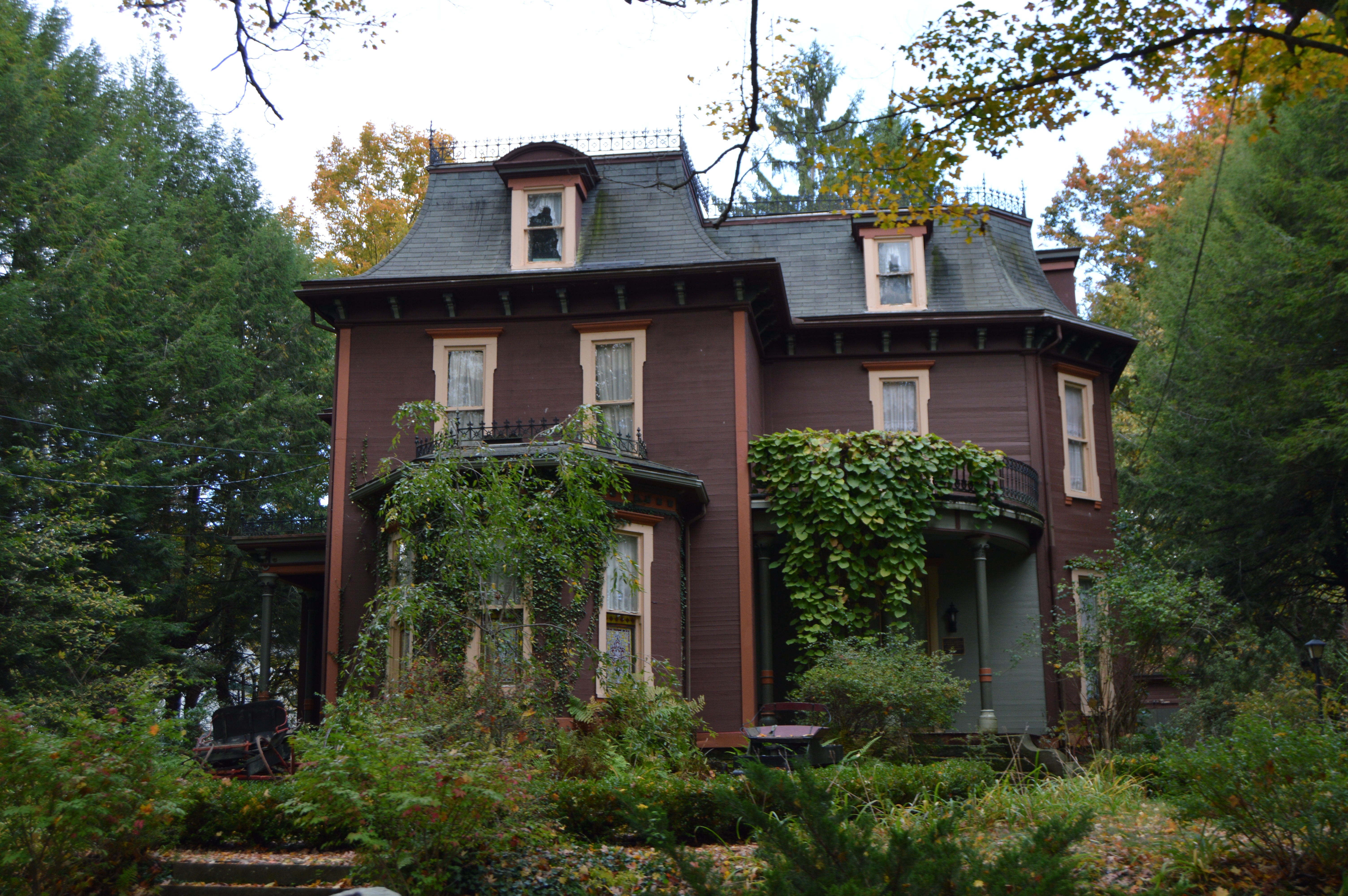 Front of the Connely-Holeman House, located at 317 Chestnut Street in Pleasantville, Pennsylvania, United States. Built in 1871, it is listed on the National Register of Historic Places.